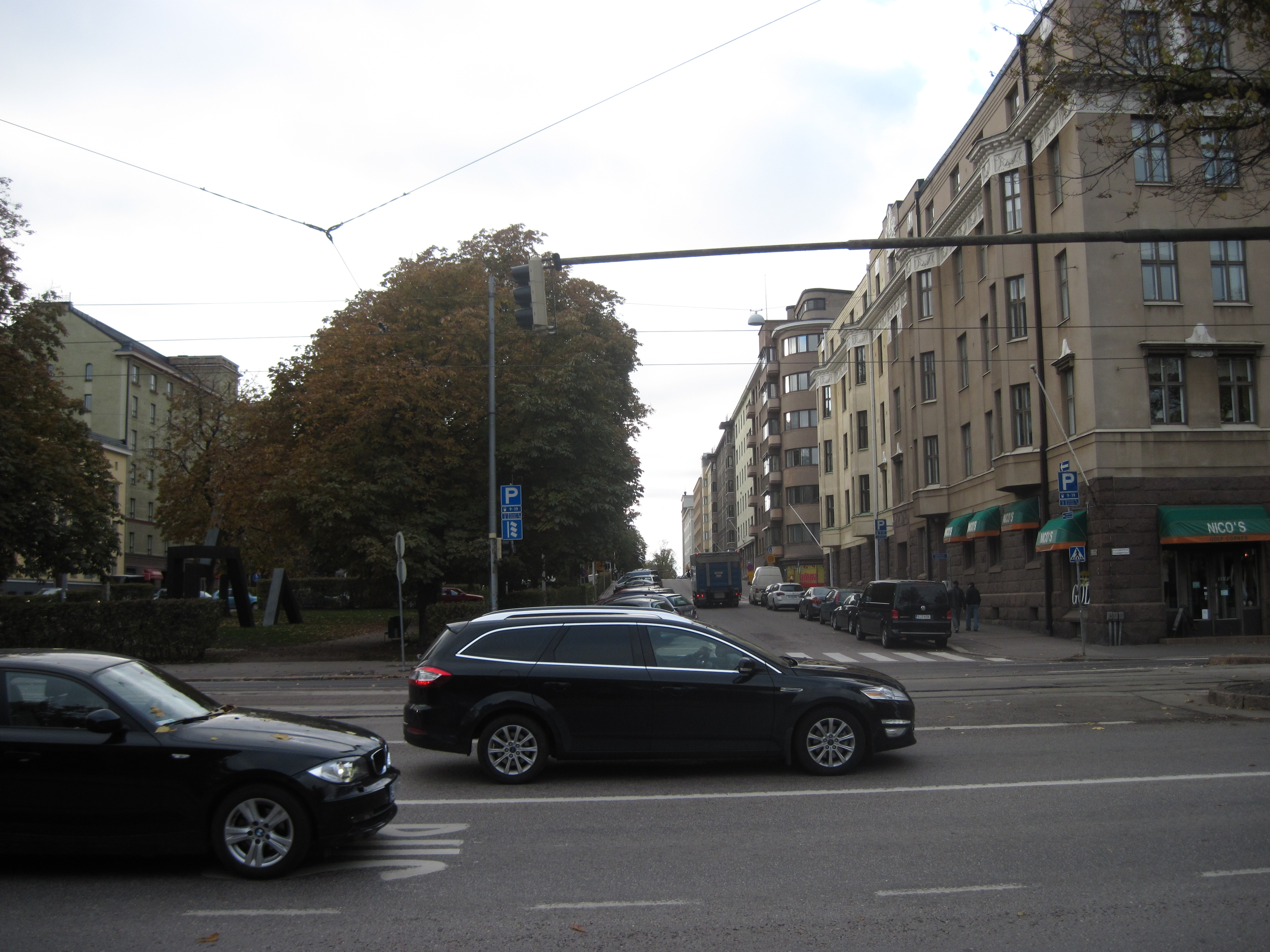 Hesperia Esplanade in Helsinki, as seen from Mannerheimintie